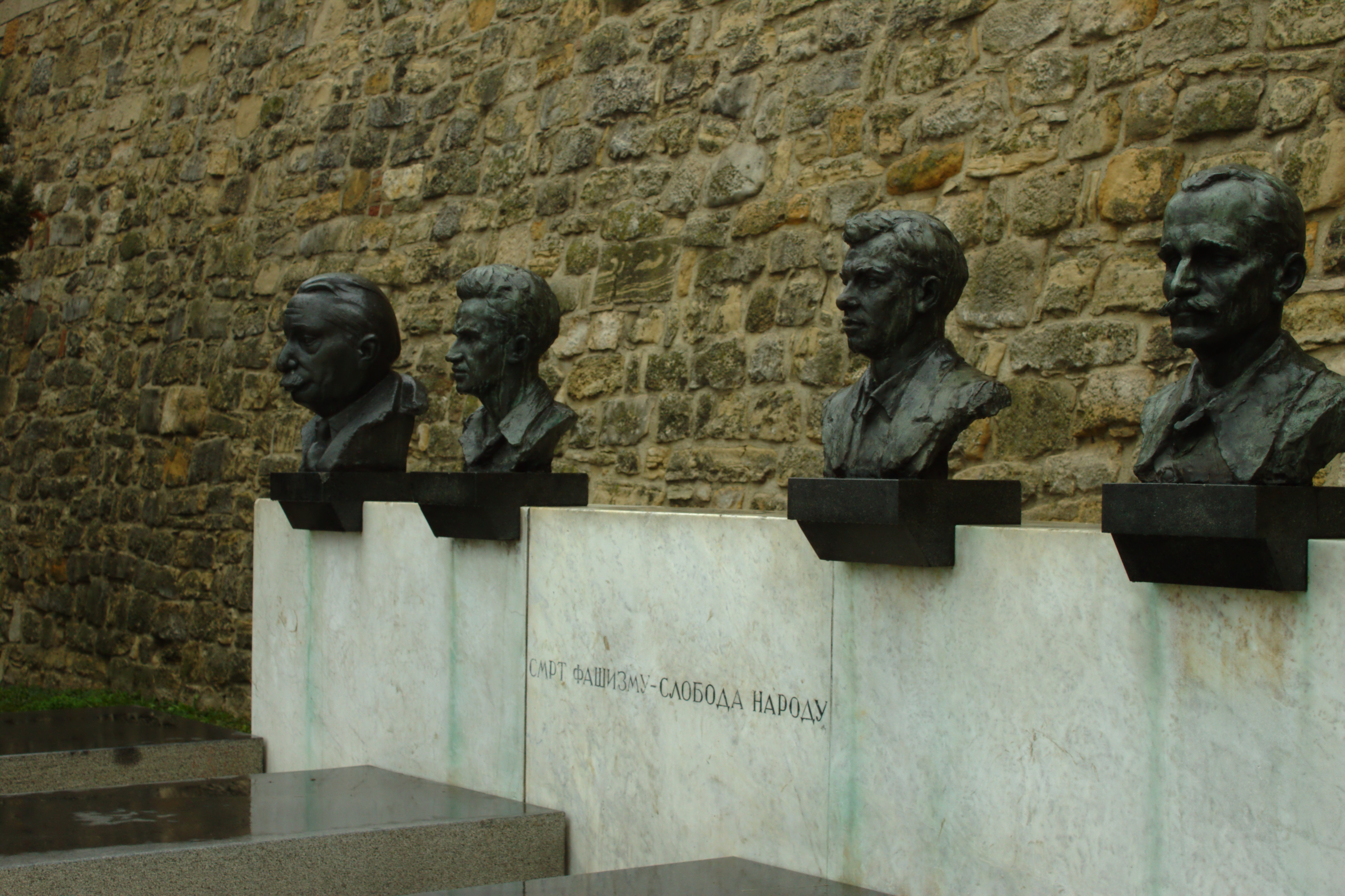 A memorial to the communist partisans at Kalemegdan, Belgrade, Serbia